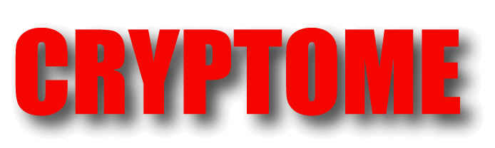 Cryptome logo.